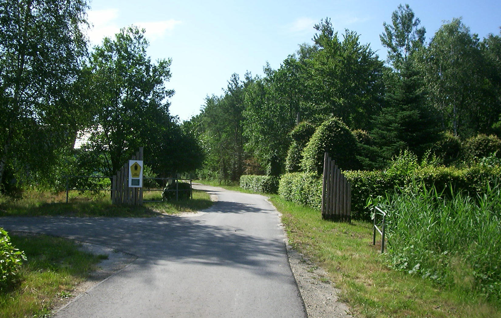 Northwestern gate of the „NSG Altes Schleifer Teichgelände“ („Großteich“) in Schleife, Germany (en.WP) Map: 51° 32' 22" N, 14° 32' 40" E